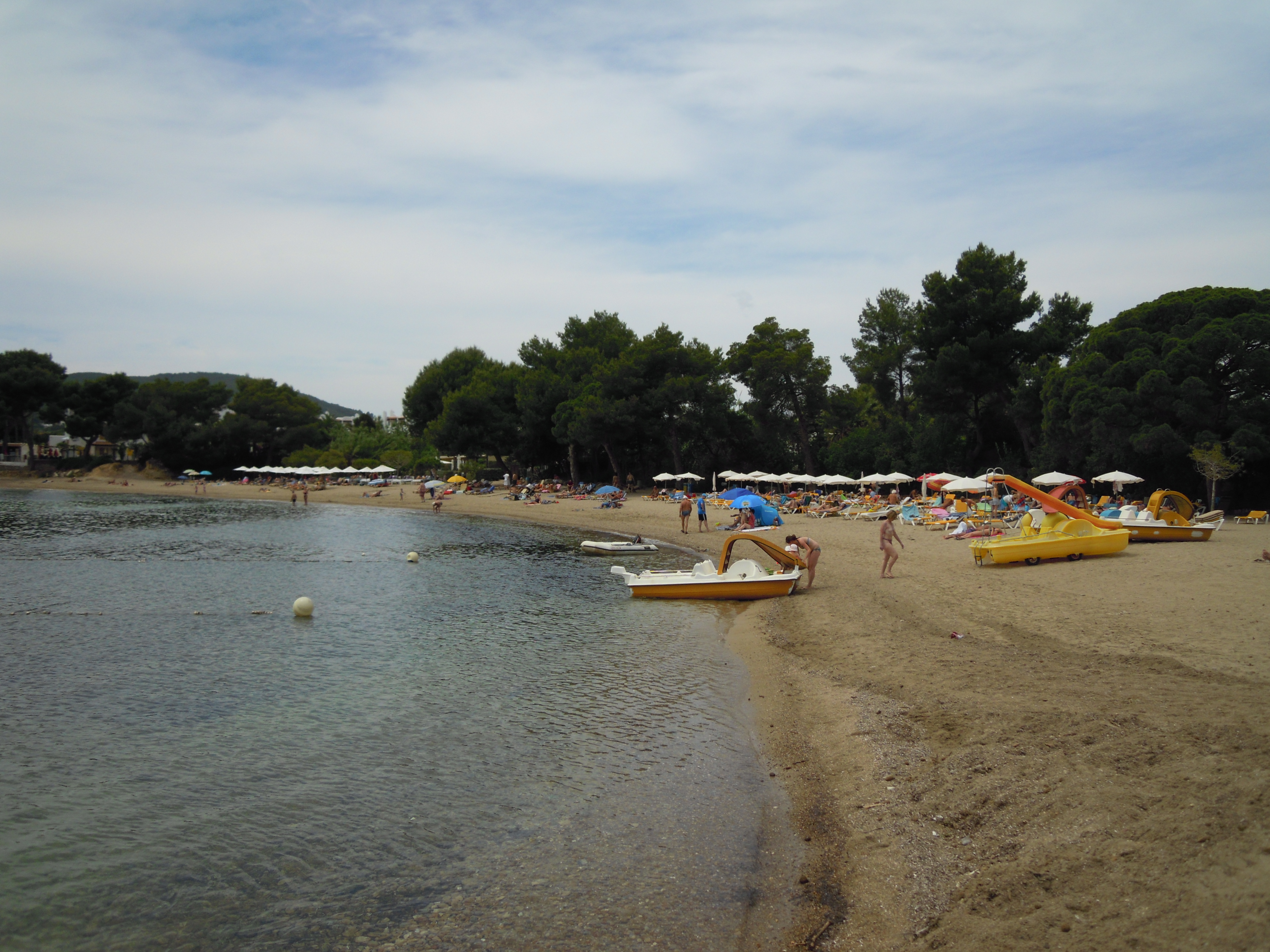 Photograph of the beach at Platja des Niu Blau, near Santa Eulalia, Ibiza, Spain